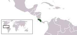 Location map for the Costa Rica. Originally created for English Wikipedia by Vardion.